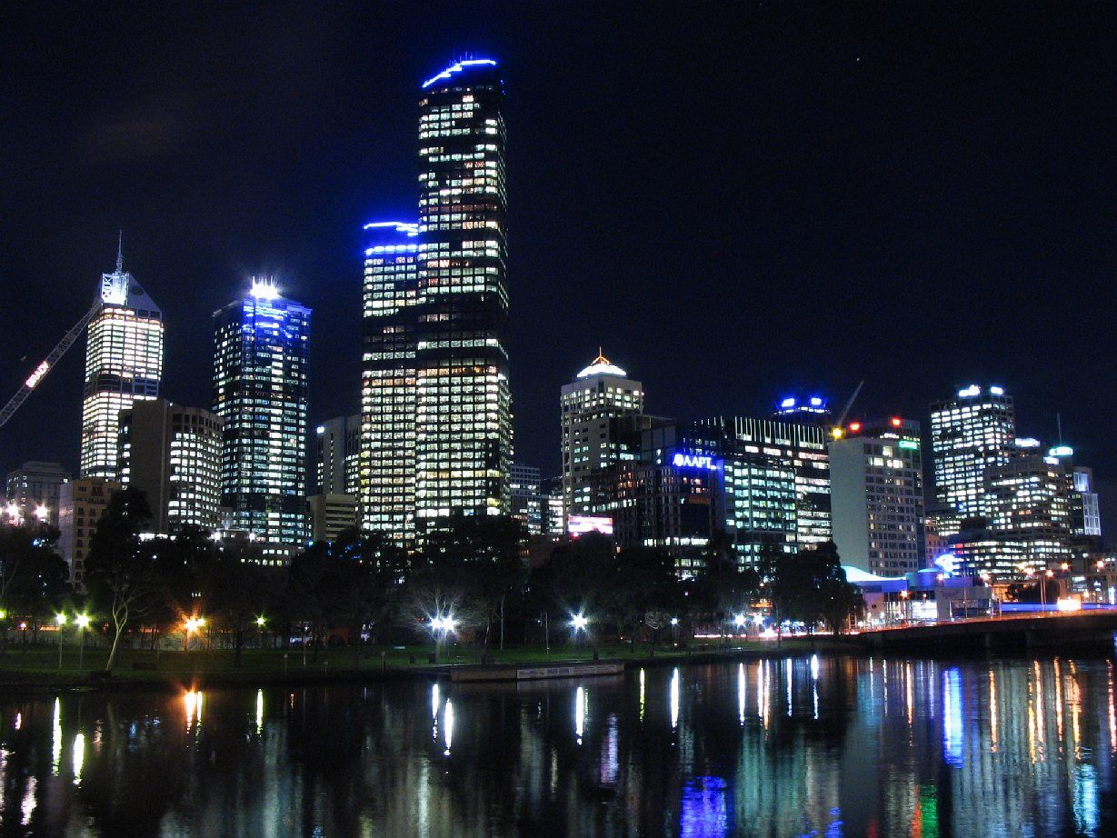 Rialto Towers, Melbourne, Australia